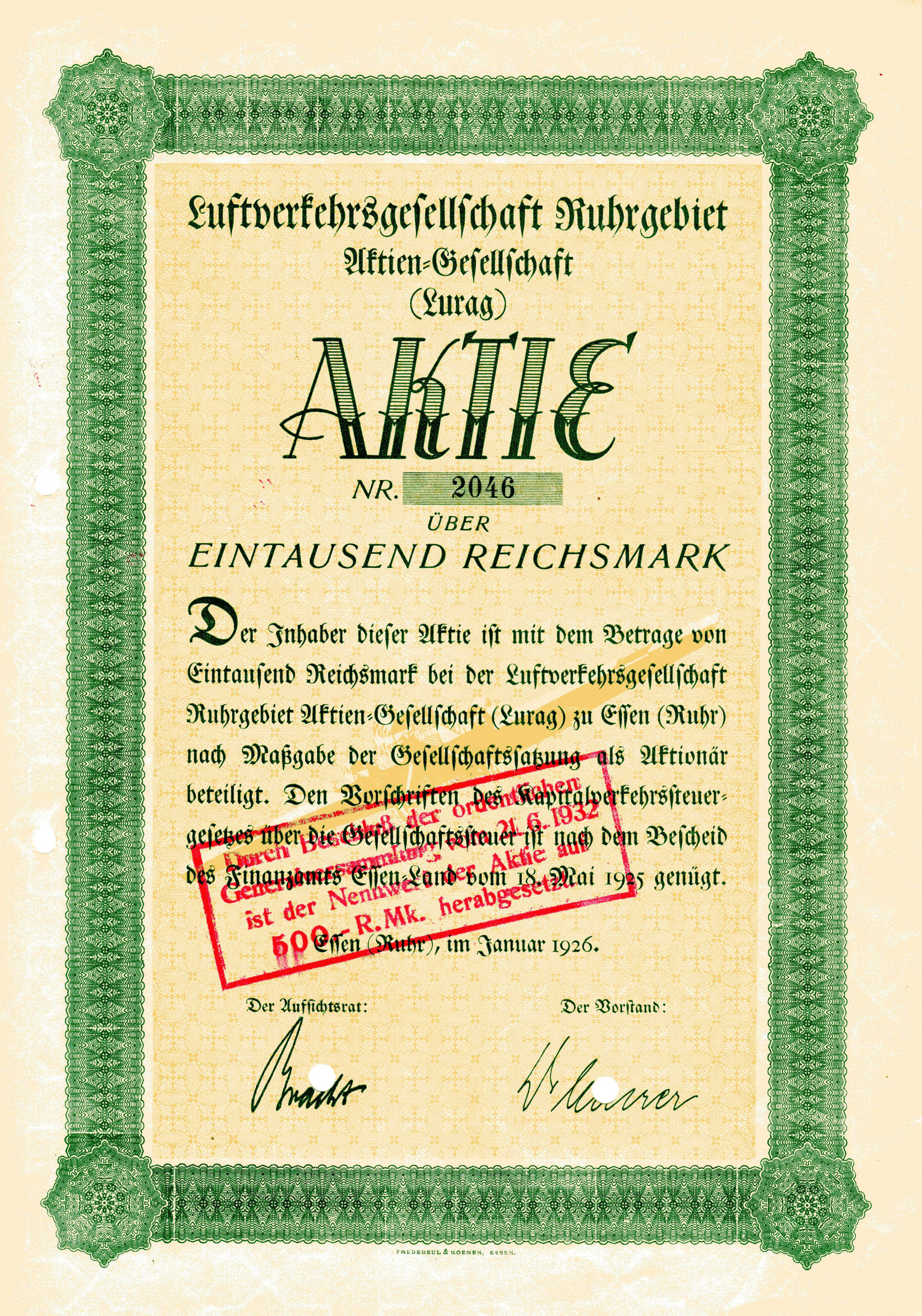 Share of the Luftverkehrsgesellschaft Ruhrgebiet AG (LURAG), issued January 1926